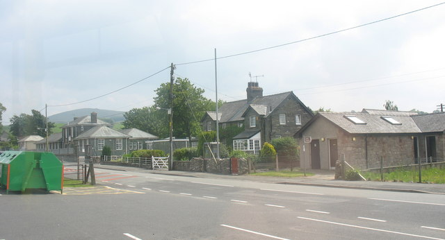 The "Bus Station" and Primary School at Pentrefoelas The Llangollen-Llandudno X19 bus turns off the A5 and crosses Pont Merddwr, turns at this open space, sometimes picks up or drops a passenger and, then, returns to the busy A5. The primary school cum community centre is the building on the far left of the photo.